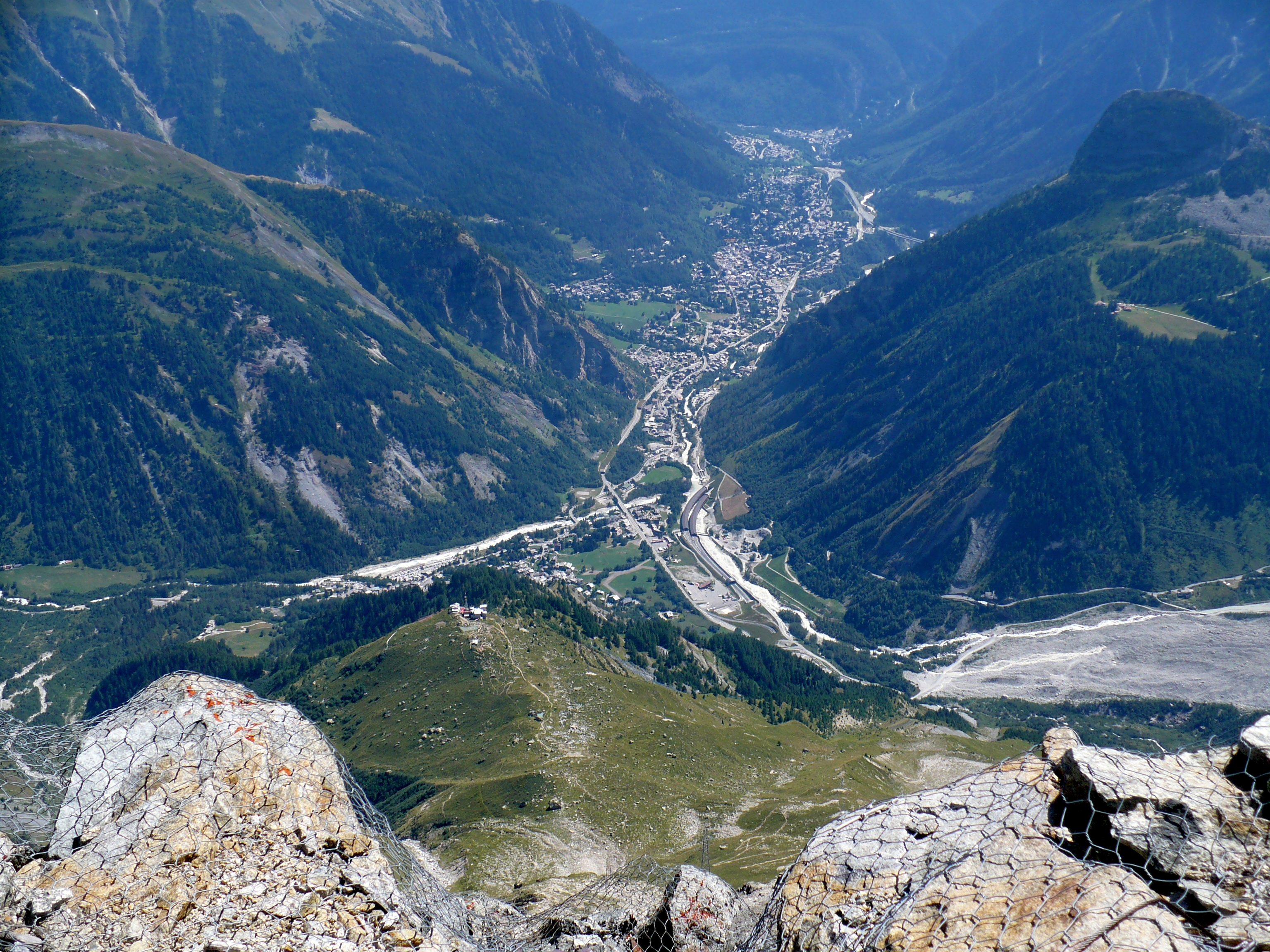 Courmayeur from Rifugio Torino - Aosta Valley - Italy